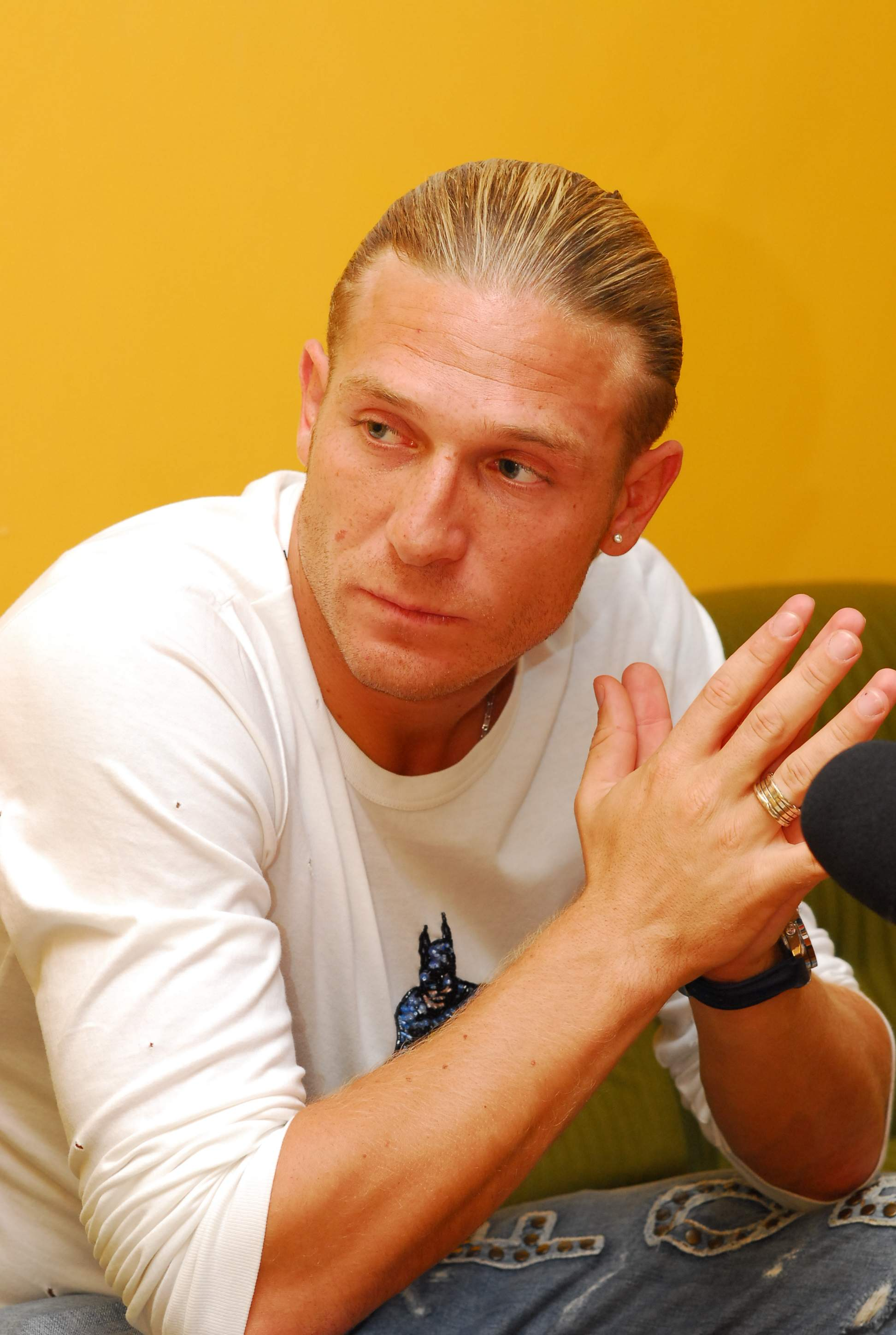 Andriy Voronin (Andrij Woronin), Ukranian footballer of German club Hertha Berlin and formerly of English club Liverpool FC.